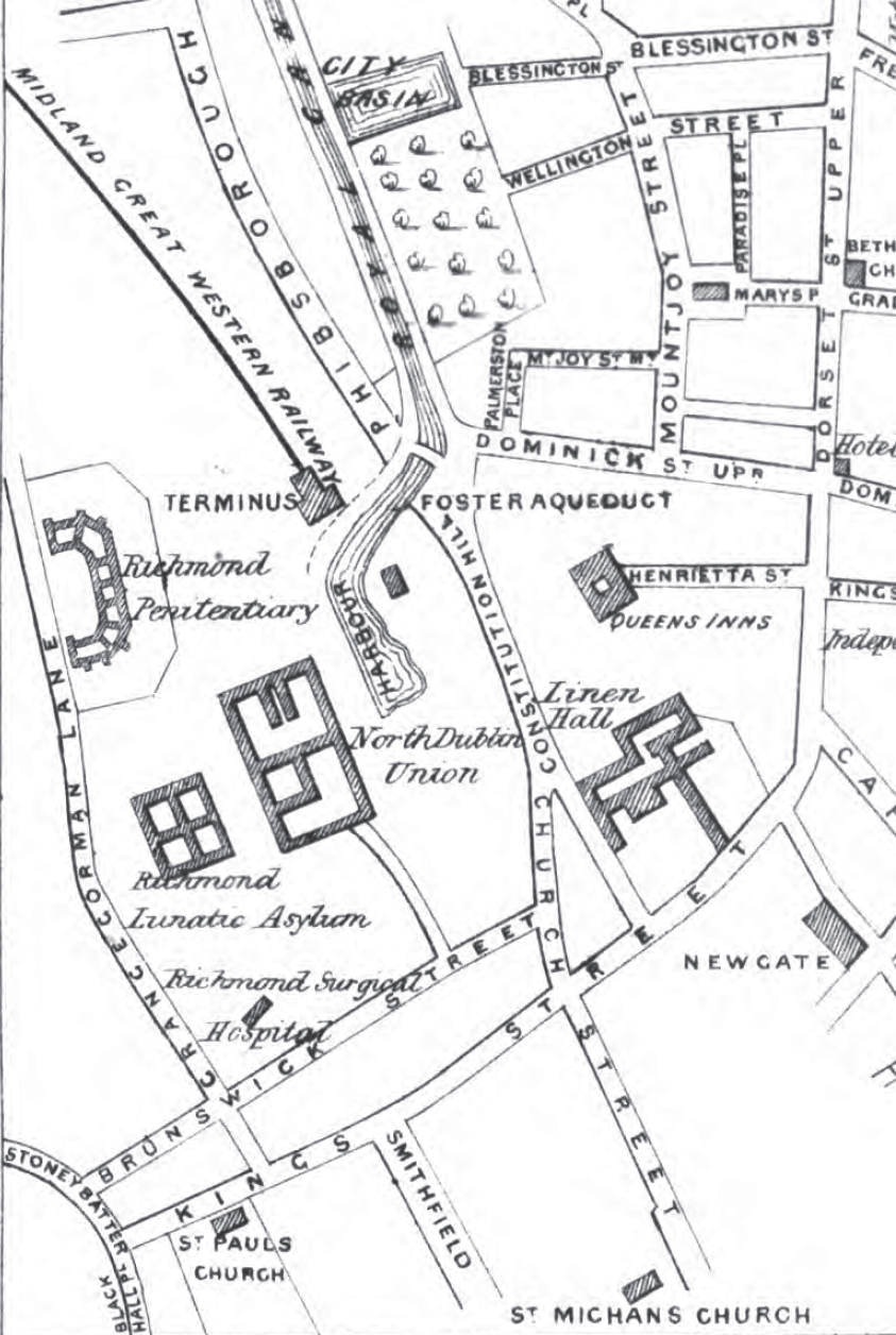 This is a map of north west Dublin, centring on the Richmond District Lunatic Asylum, the North Dublin Union and the Richmond General Penitentiary. Showing also Broadstone, Phibsborough (Phibsboro), Brunswick Street, Stoneybatter, Grangegorman. Dublin localities Map. Map created 1862. This shows a portion of the original map